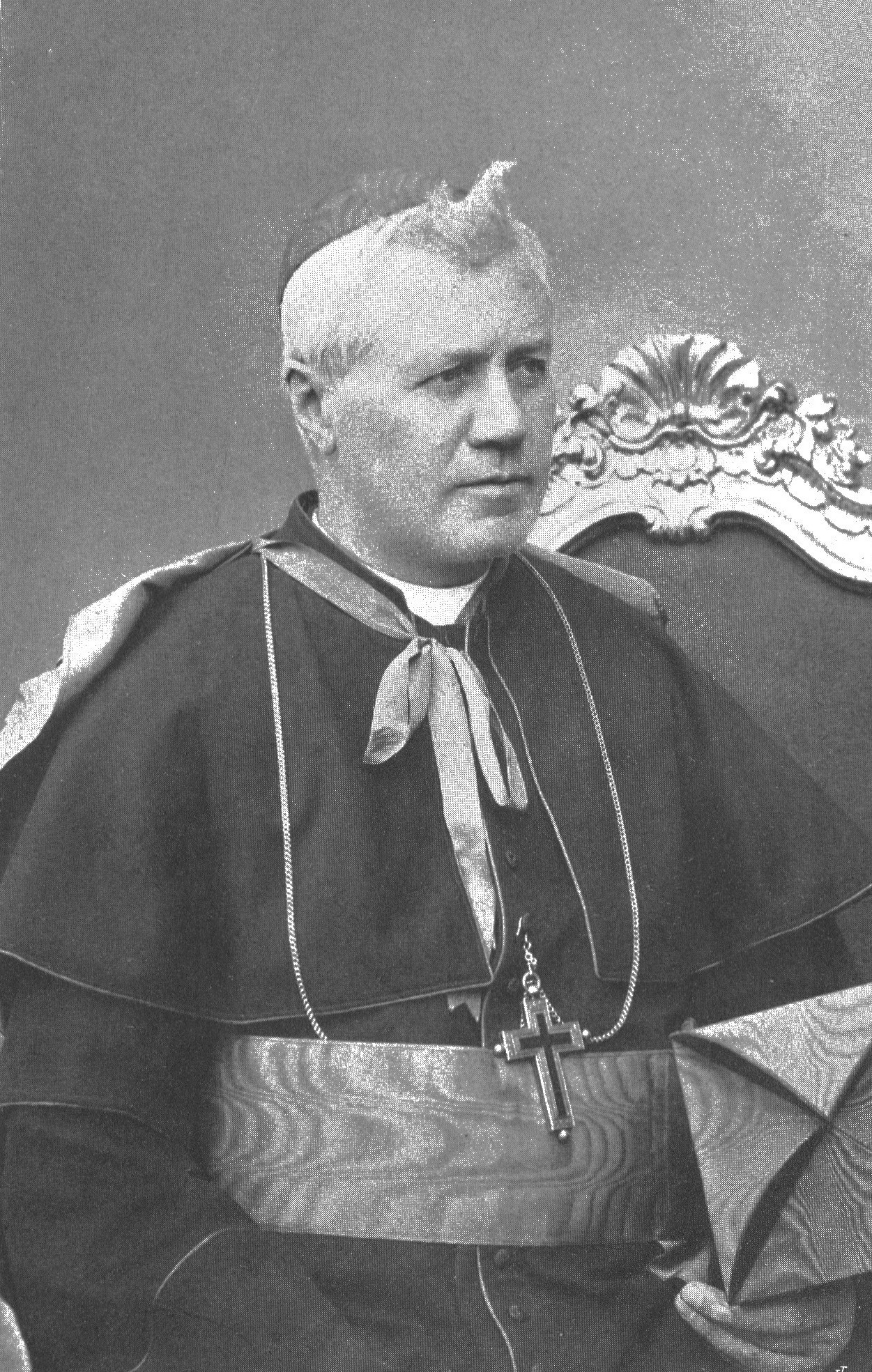 Giuseppe Sarto - later Pope Pius X - as patriarch in Venice